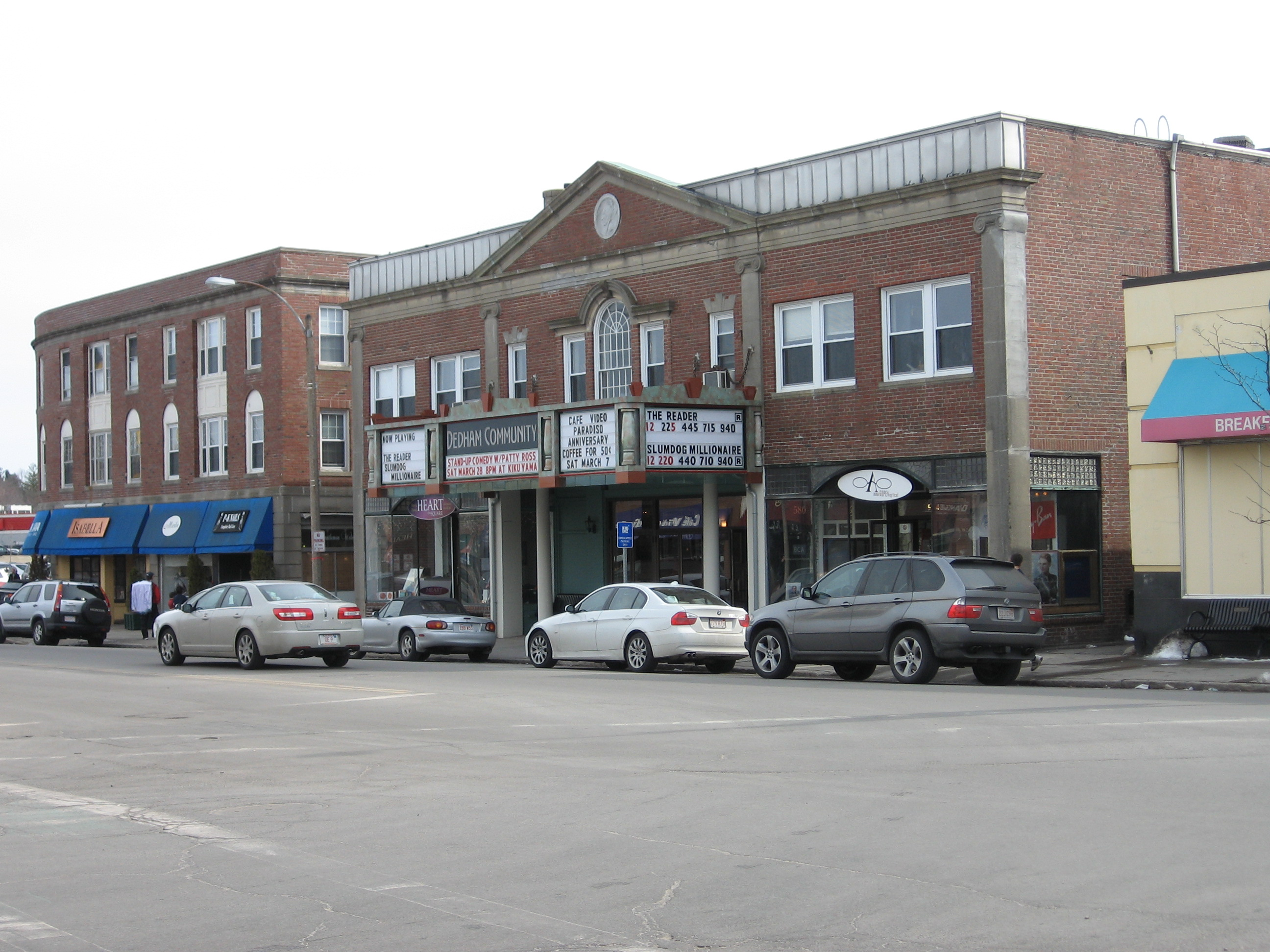 Facade of the Dedham Community Theatre in Dedham, Massachusetts